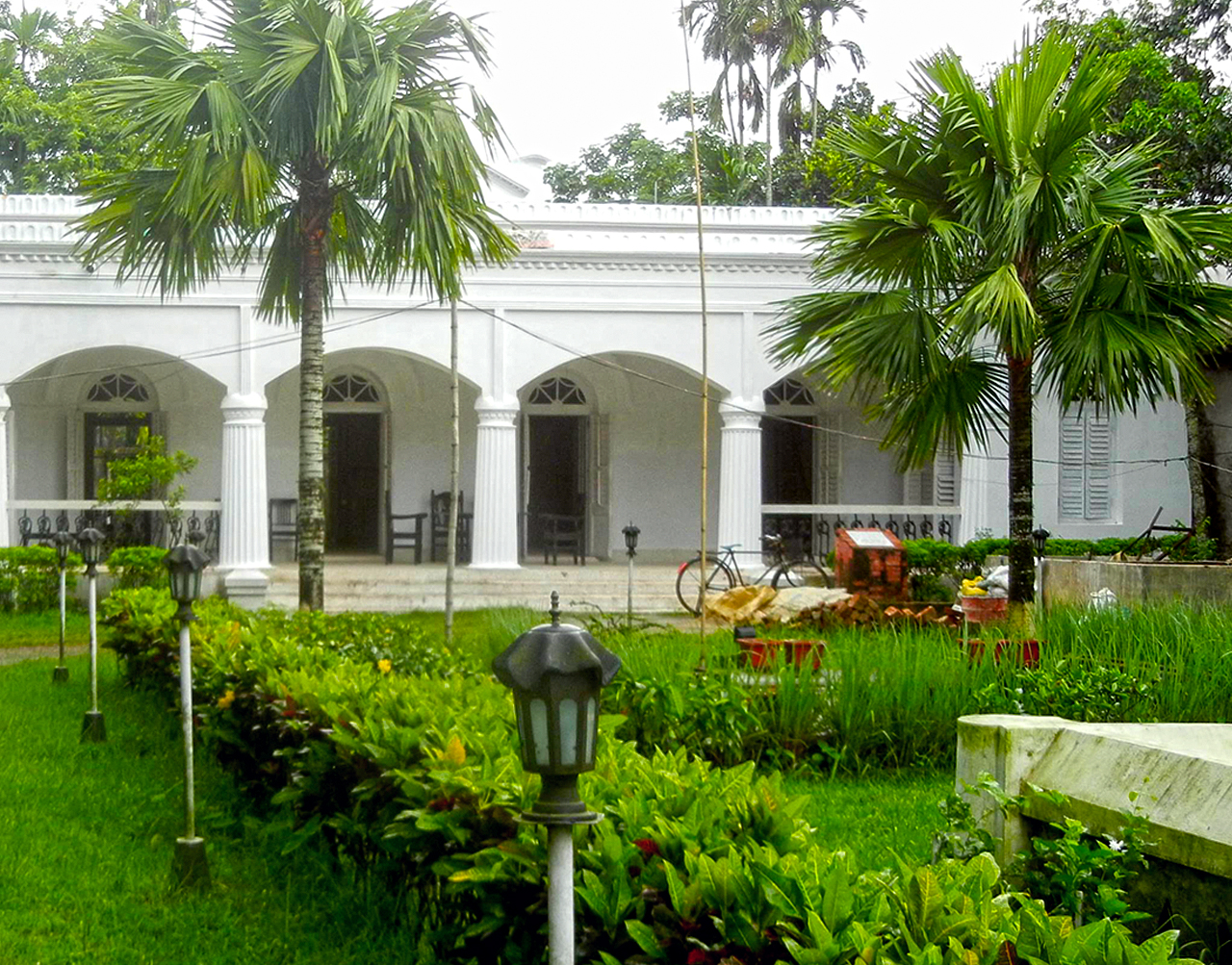 Jitu Miah'r Bari (Jitu Miah's House), Sylhet, Bangladesh. photo taken by Mahmudul Munna